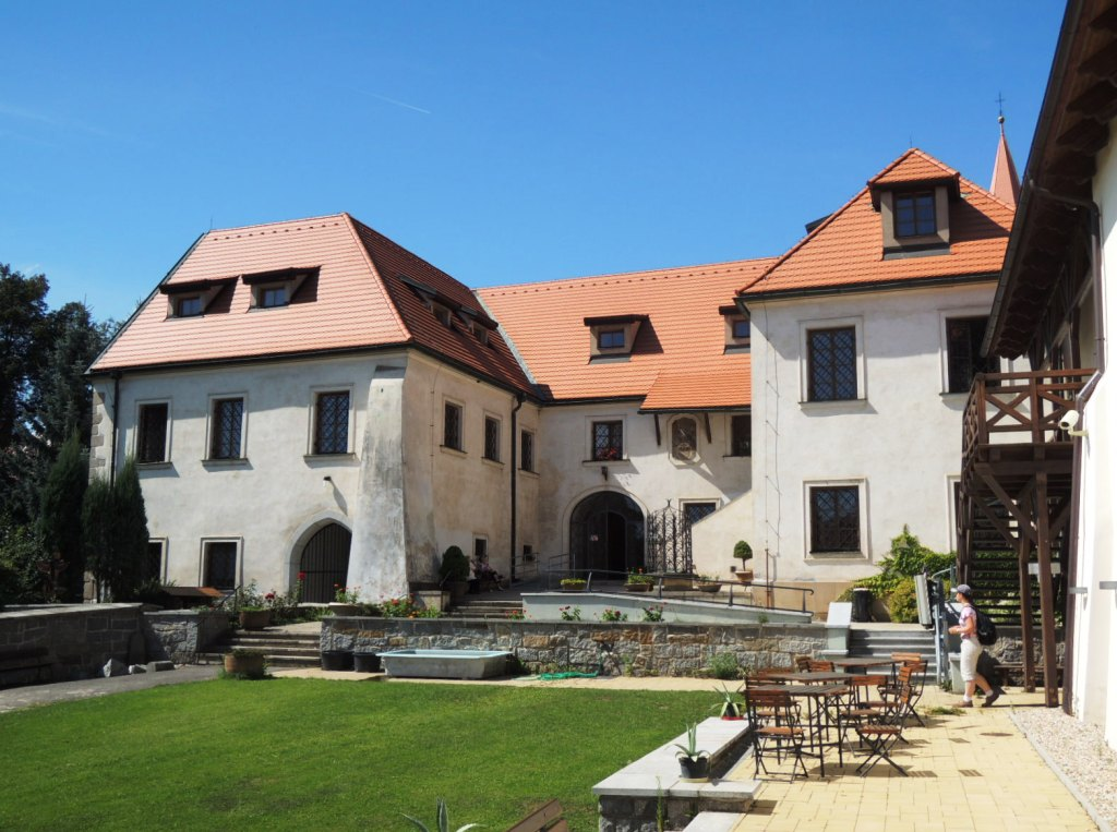 Jílové u Prahy, historical museum building from east